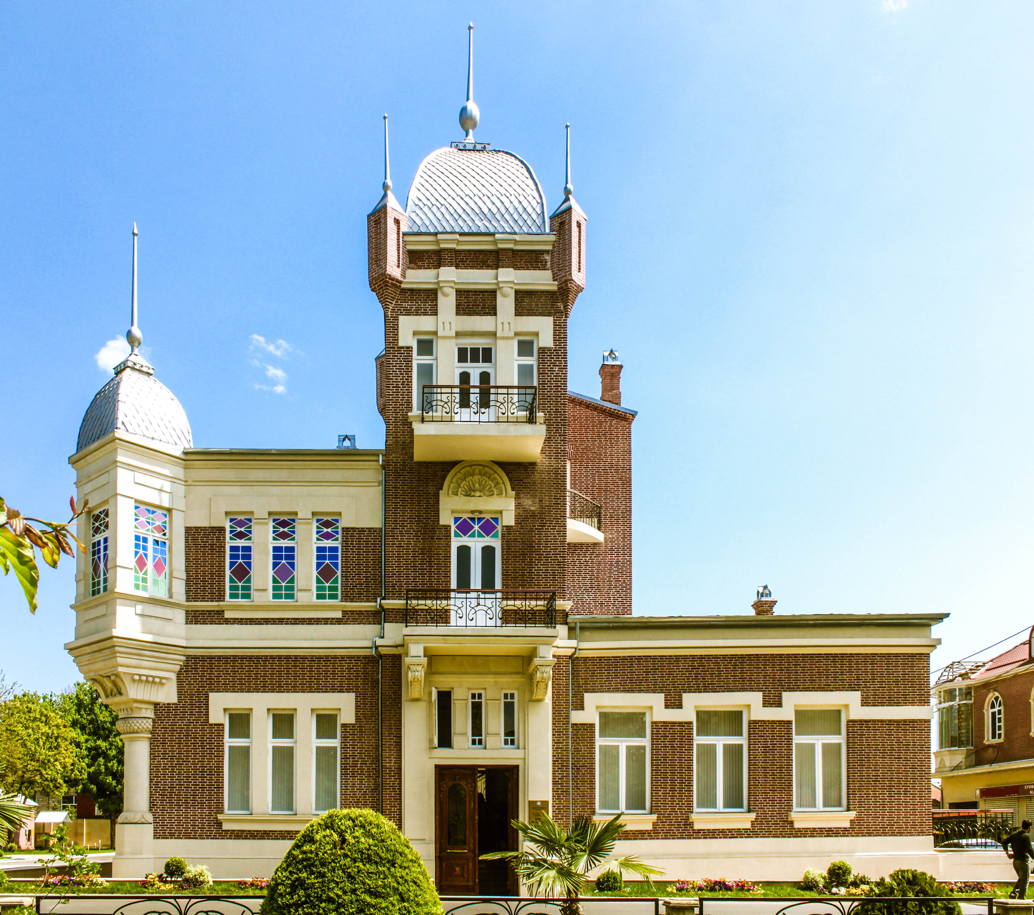 Palace of Mir Ahmad khan